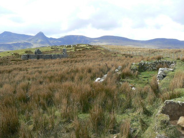 Silent stones